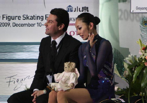 Miki Ando sits with coach Nikolai Morozov in the kiss & cry following her free skating program at the 2008-2009 Grand Prix Final